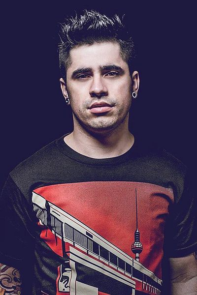 Ftampa perfil2 2014